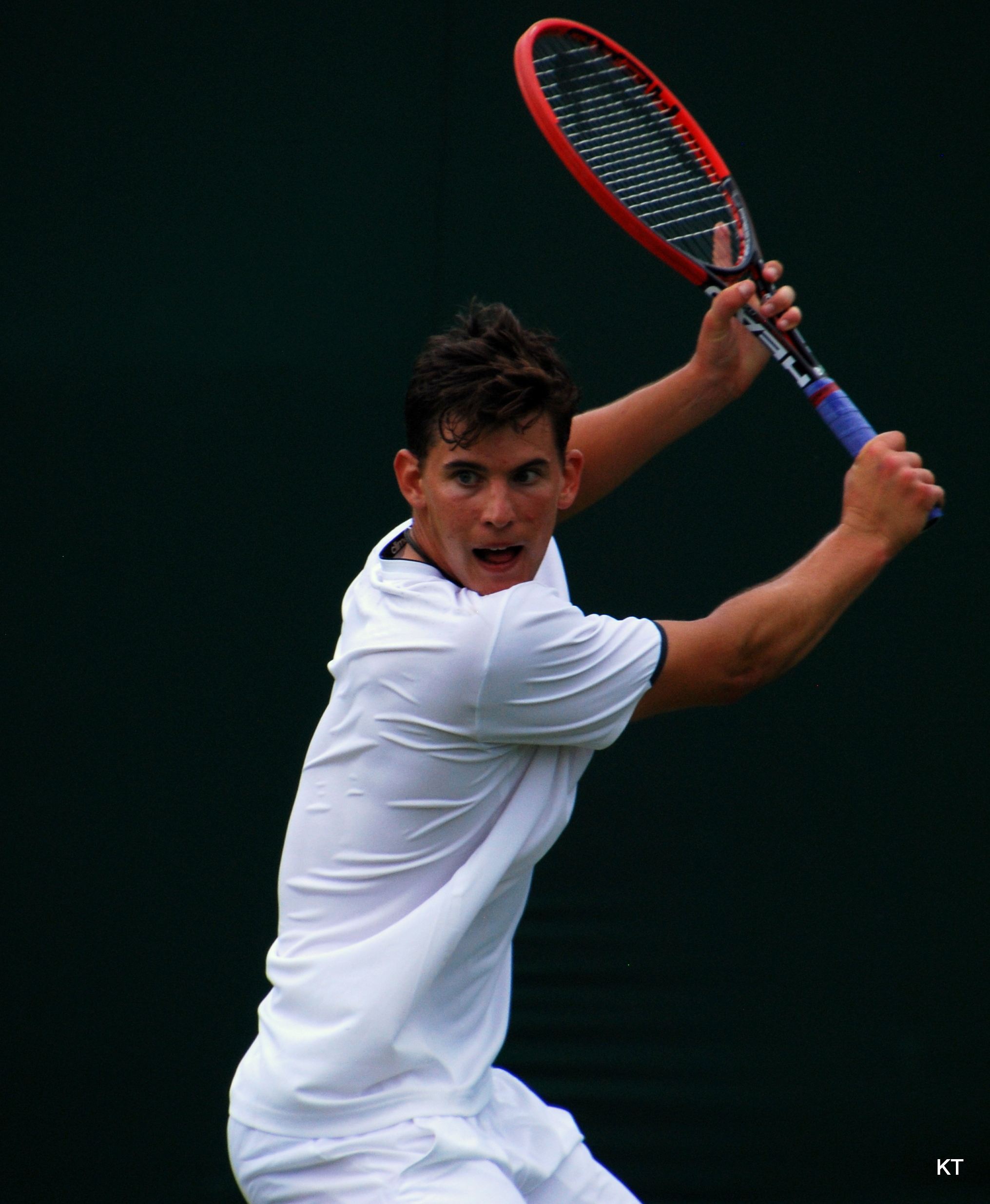 Day 1 of Wimbledon 2014.